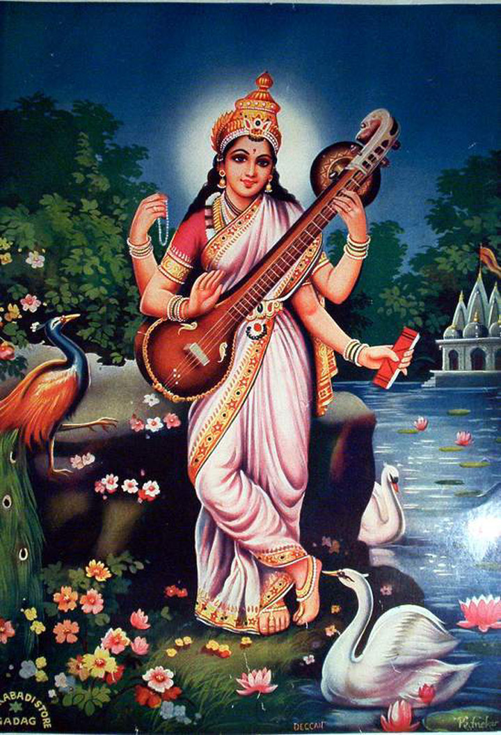 Another modern Sarasvati (bazaar art, c.1950's) (downloaded Nov. 2004)